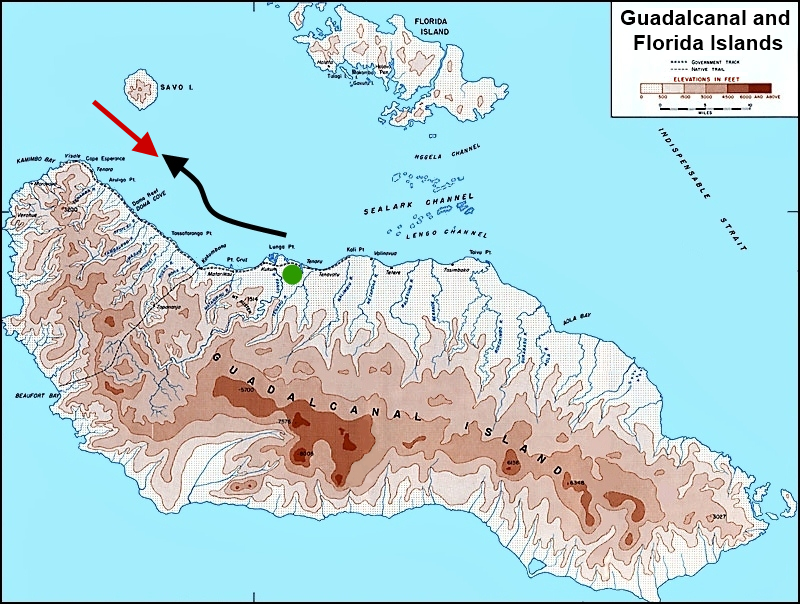 U.S. (black line) and Japanese (red line) forces head directly towards each other off Guadalcanal early on November 13, 1942.